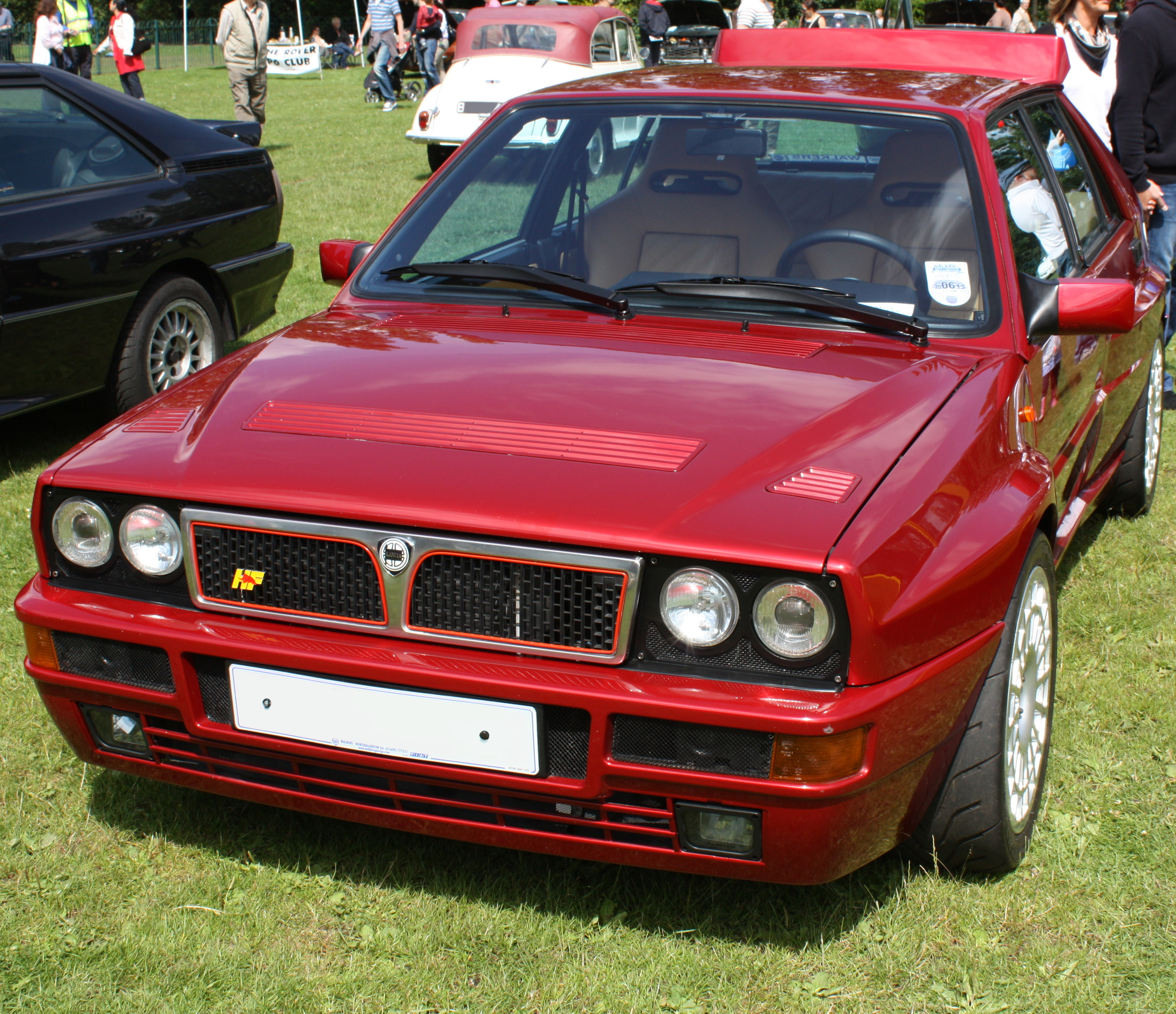 1994 Lancia Delta HF Integrale, possibly a "Dealers Collection" limited edition